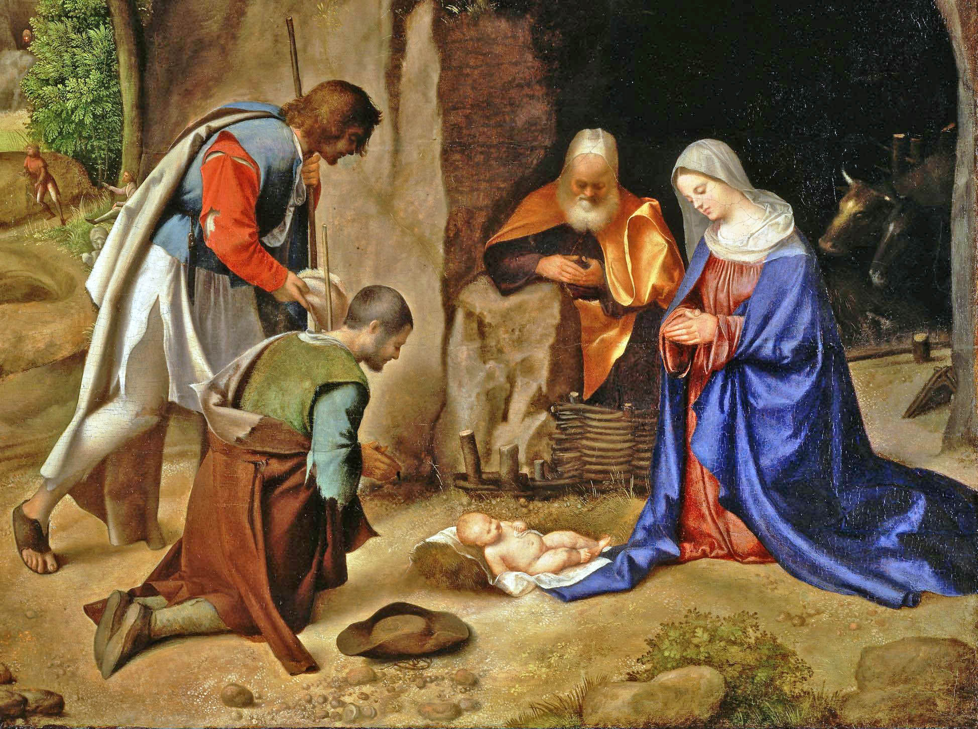 Crop of original painting "Anbetung der Hirten"